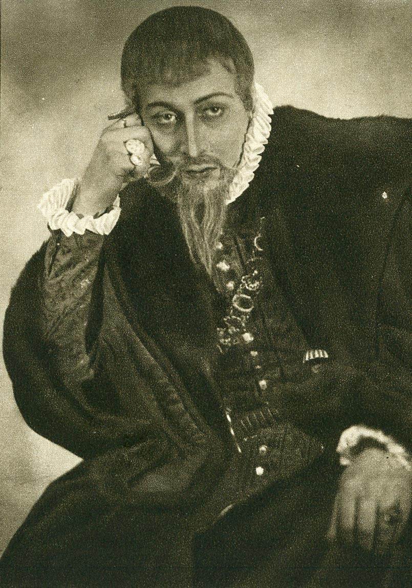 Gösta Ekman as Prince Erik in Strindberg's drama Gustav Vasa.